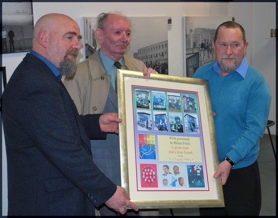 Here is a rare photo on an even rarer occasion. It is Brian Friel's 80th birthday. He chooses to honour this great event by visiting the studio of The Bogside Artists in Derry's Bogside where he is presented with a print of their famous People's Gallery showing all twelve murals they created for it. The People's Gallery is now a landmark in the city.